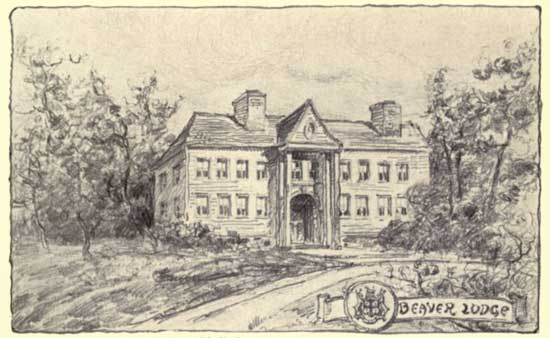 Beaver Lodge/Hall, a meeting place of the Beaver Club at Montreal